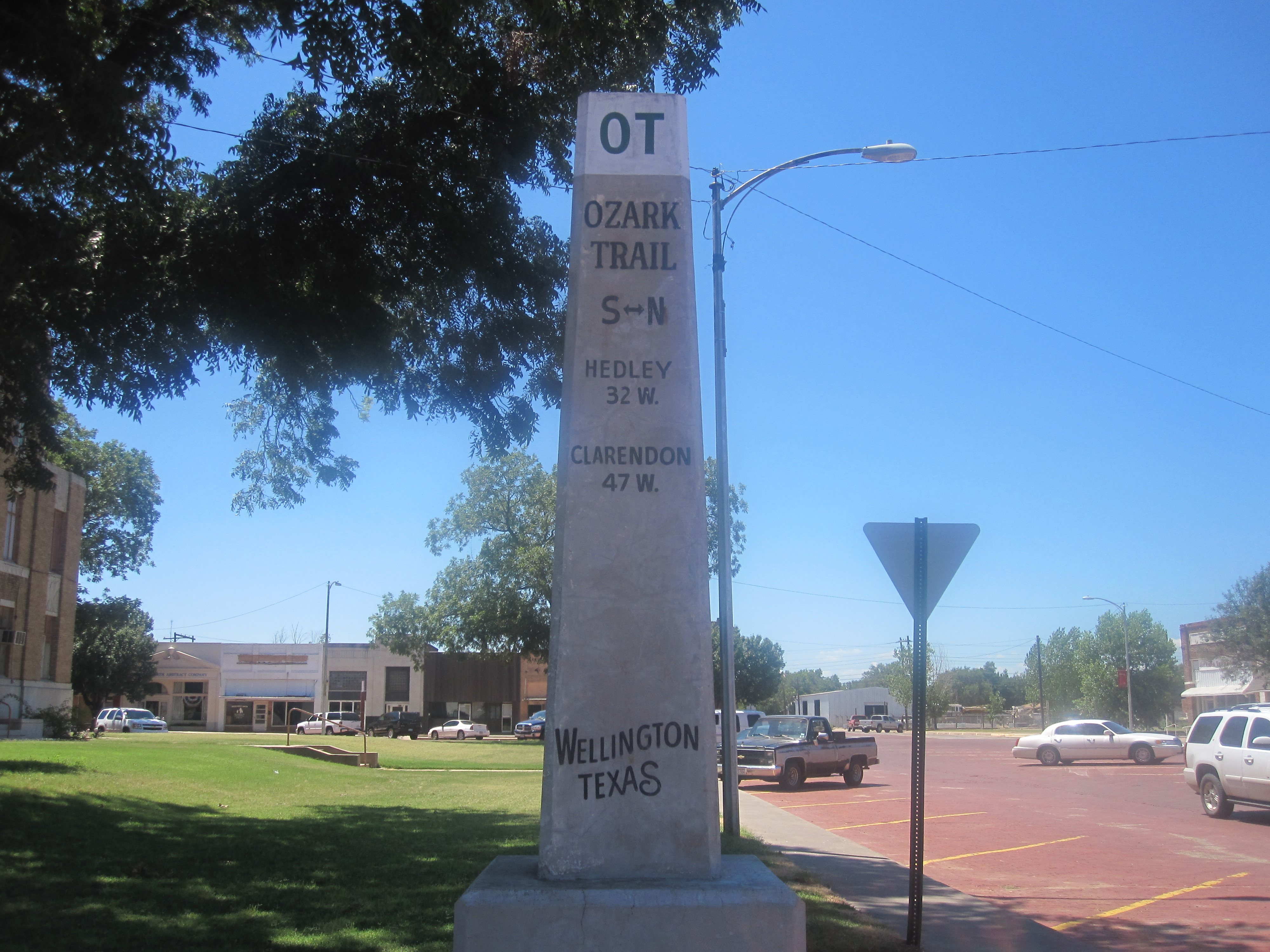 I took photo with Canon camera in Wellington, TX.